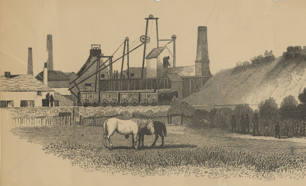 Wideopen Colliery in Northumberland